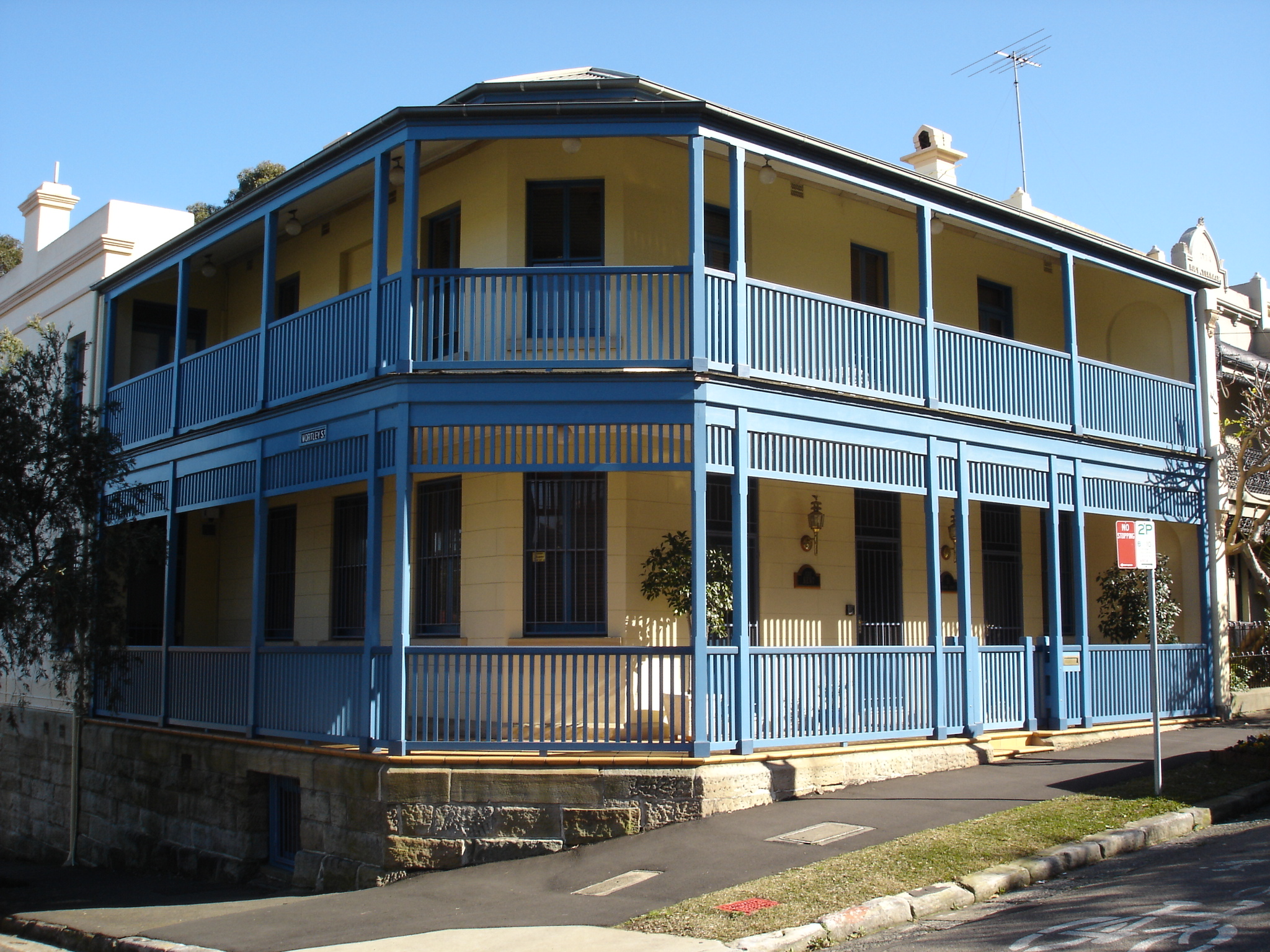 Kent Hotel Balmain, New South Wales. Picture taken 19/8/06 by user Amitch.